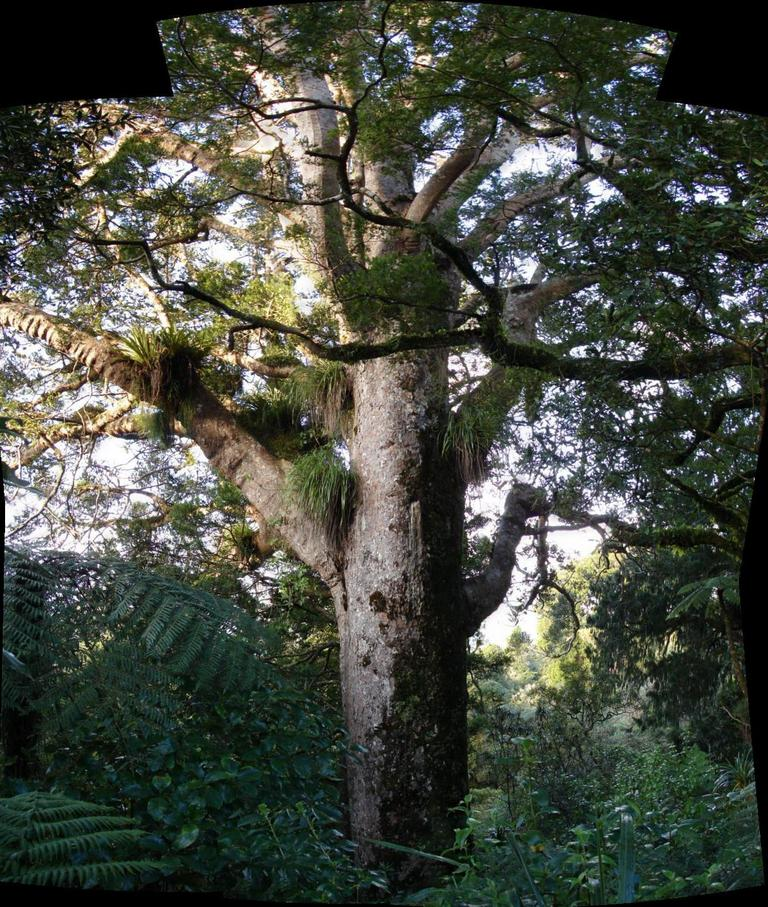 New Zealand native Agathis australis. This tree is at least 600 years old, may be more.